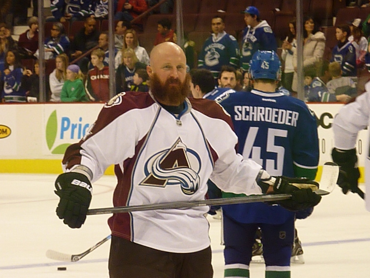 The Beard of Zanon